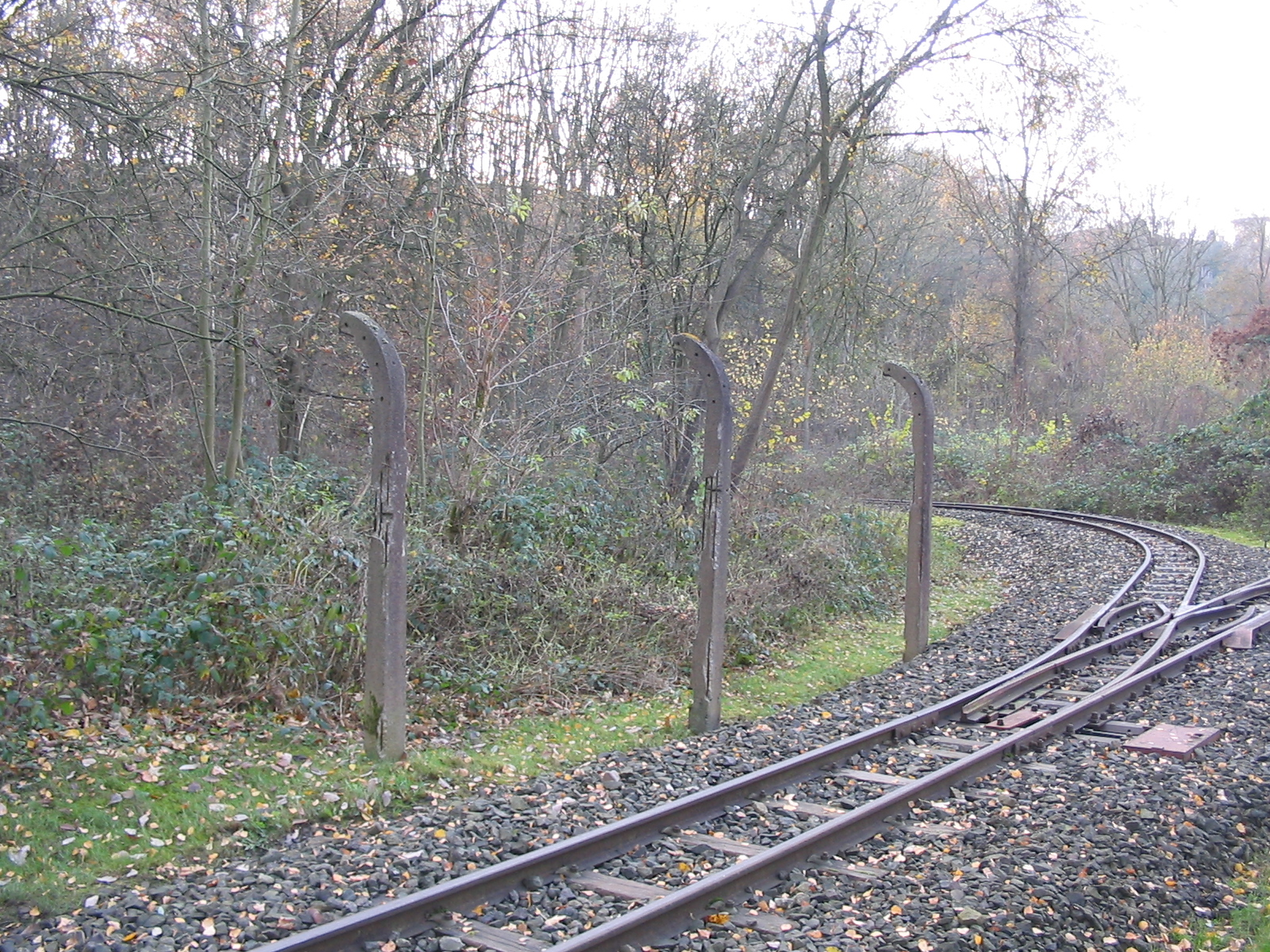 former Forced labour camp Nachtigallstraße in Witten